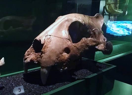 Palaeolithic-period lion skull excavated at Crayford, London Borough of Bexley. Image taken when it was exhibited at the Natural History Museum in Summer 2014.